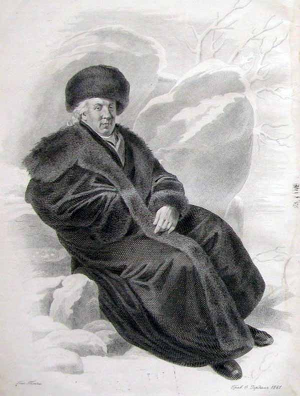 Posthumous portrait of the poet Gavrila Derzhavin, after a painting by Salvatore Tonci